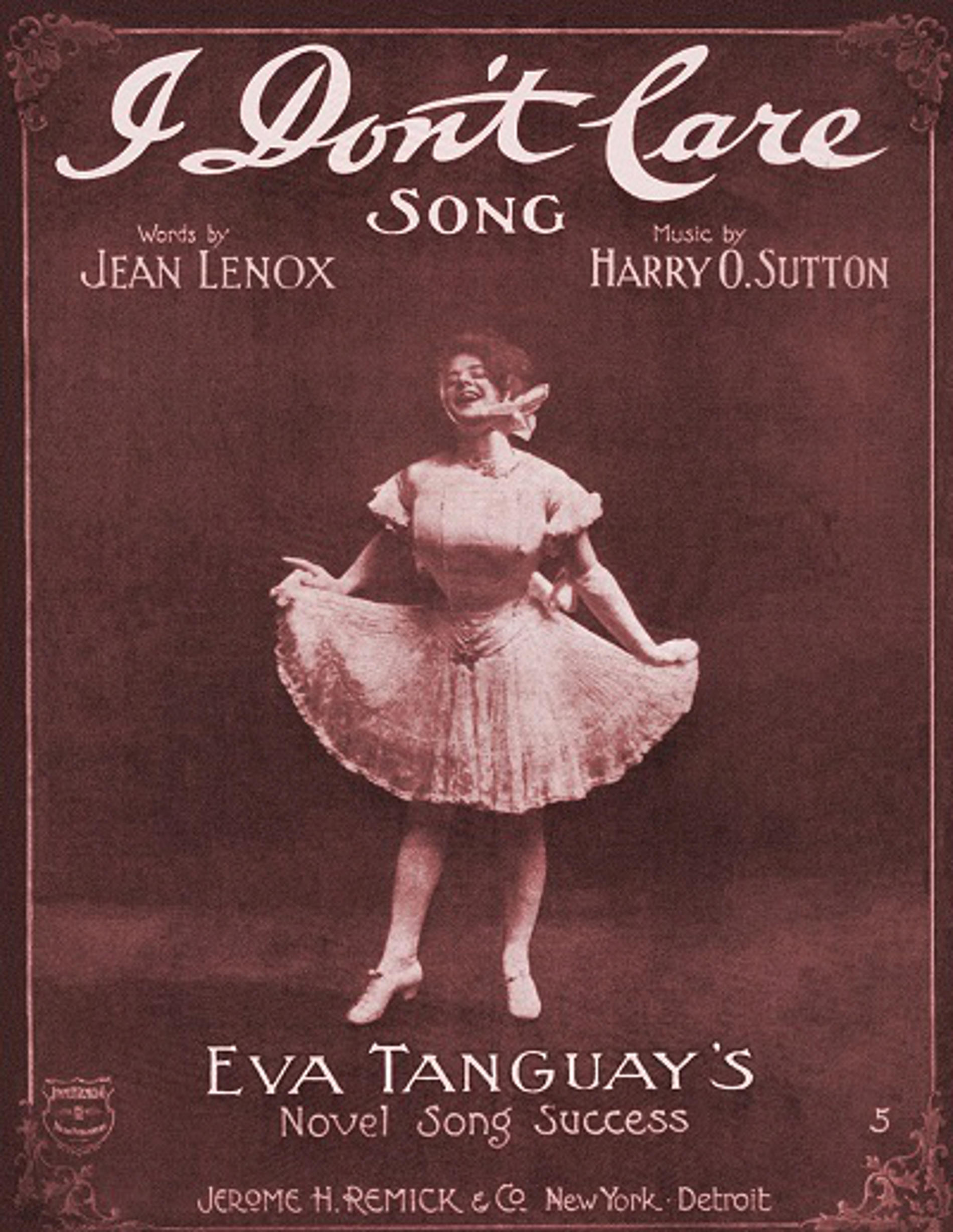 Cover of sheet music for the 1905 song "I Don't Care" made famous by Eva Tanguay